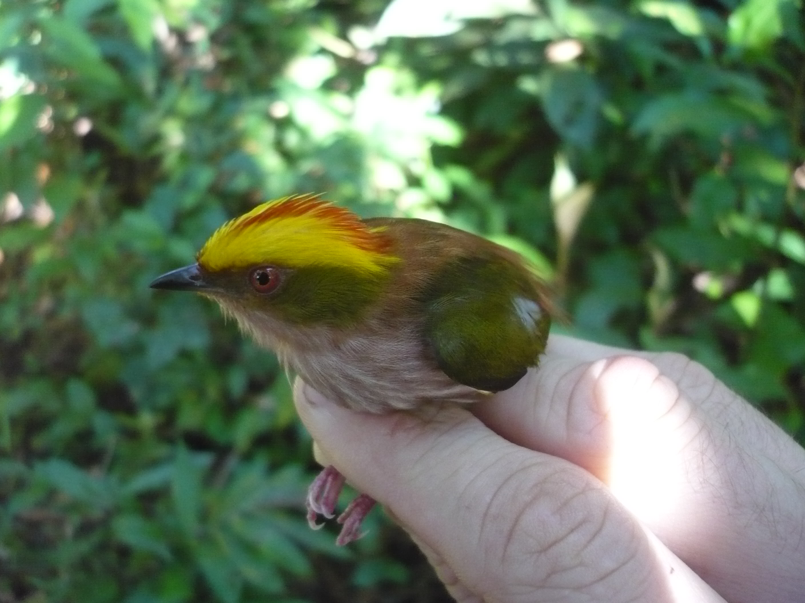 Fiery-capped Manakin (Machaeropterus pyrocephalus) in Madre de Dios, Perú. Male.